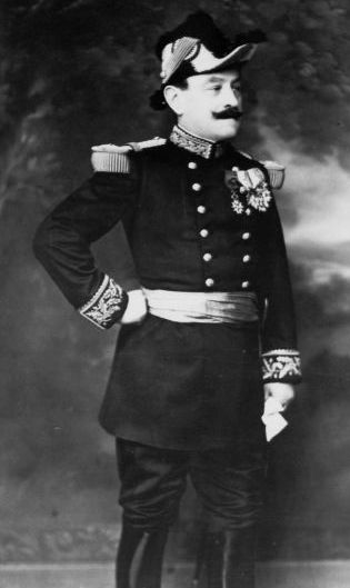 General Ernest François Amédée Anselin (1861-1916), KIA